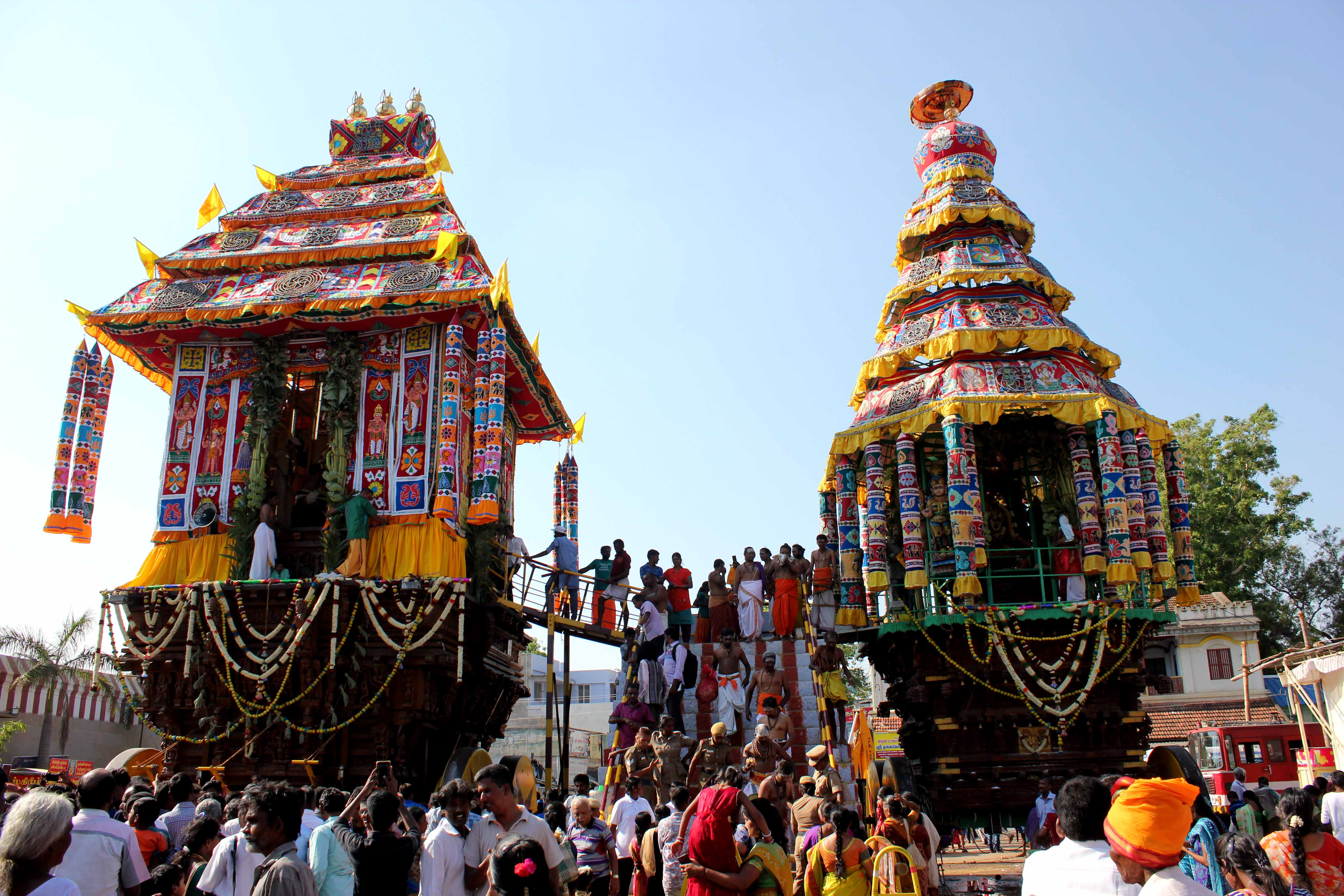 Panguni uthram car festival celebrated with religious at perur patteswara temple